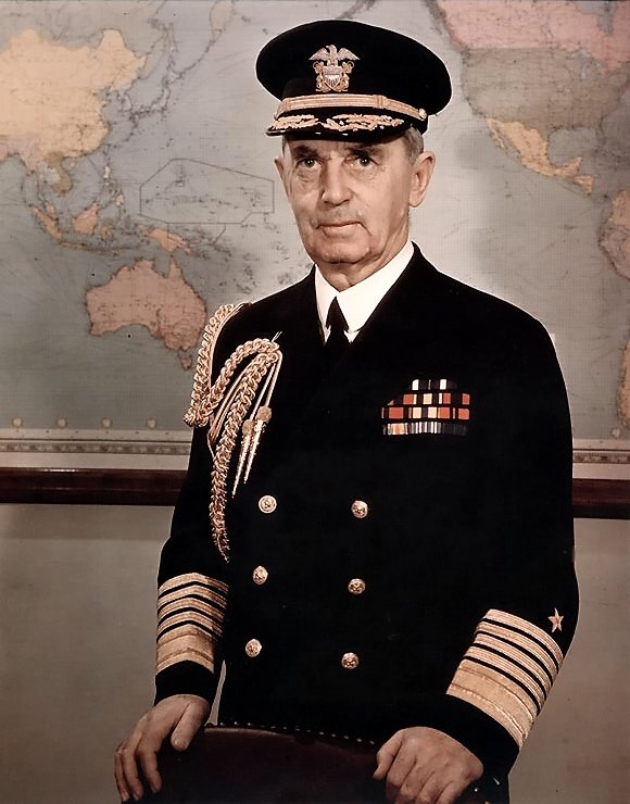 Picture of William Leahy, Chairman of the Joint Chiefs of Staff, from Navy historic site - Photo # 80-G-K-14447 403×467 (41 KB) version previously uploaded 10:54, 6 February 2004 (UTC) by Raul654 (talk • contribs) to wiki.